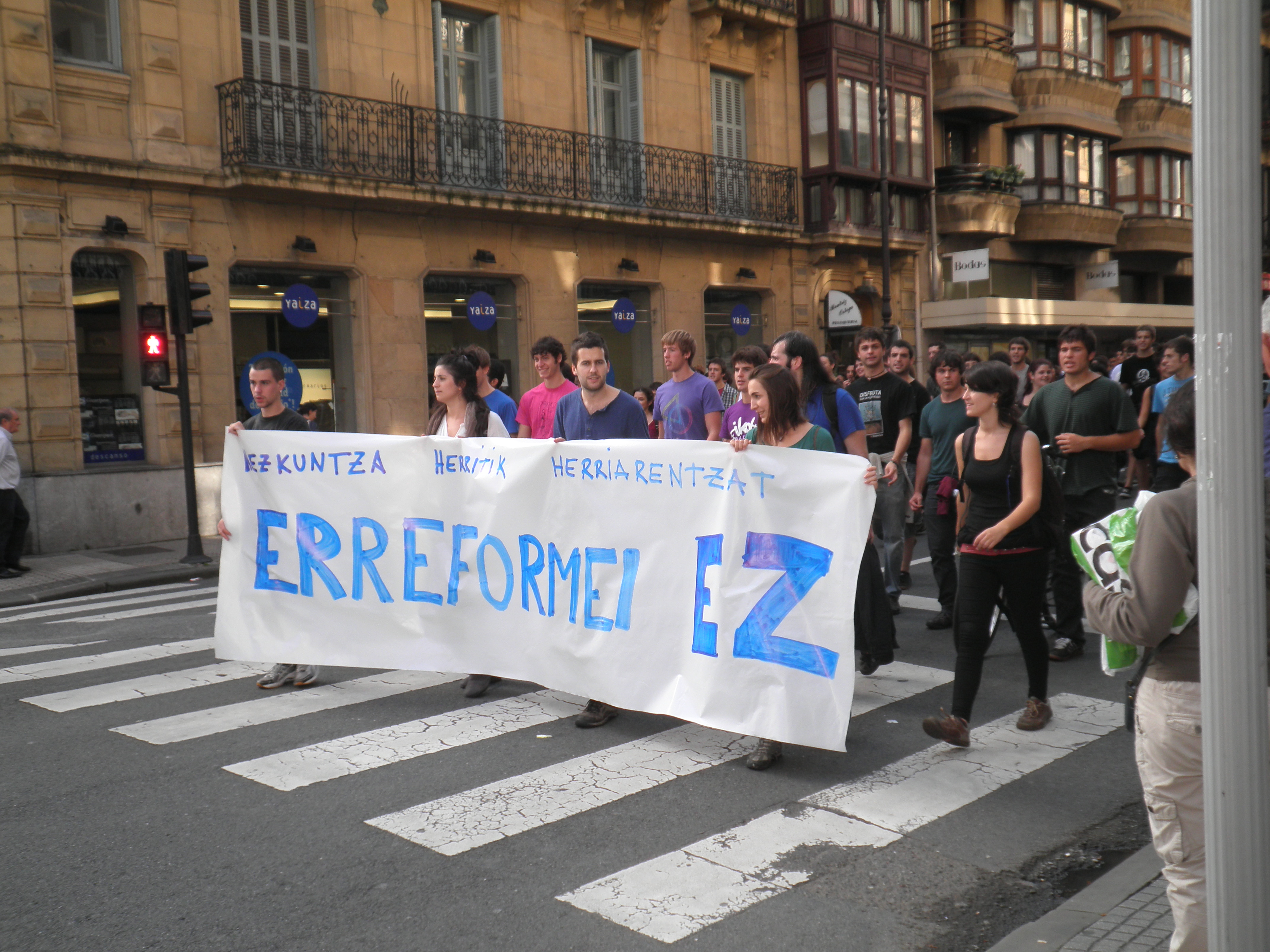 Demonstration in 2012 October 11 Spanish student strike. San martin street, Donostia.